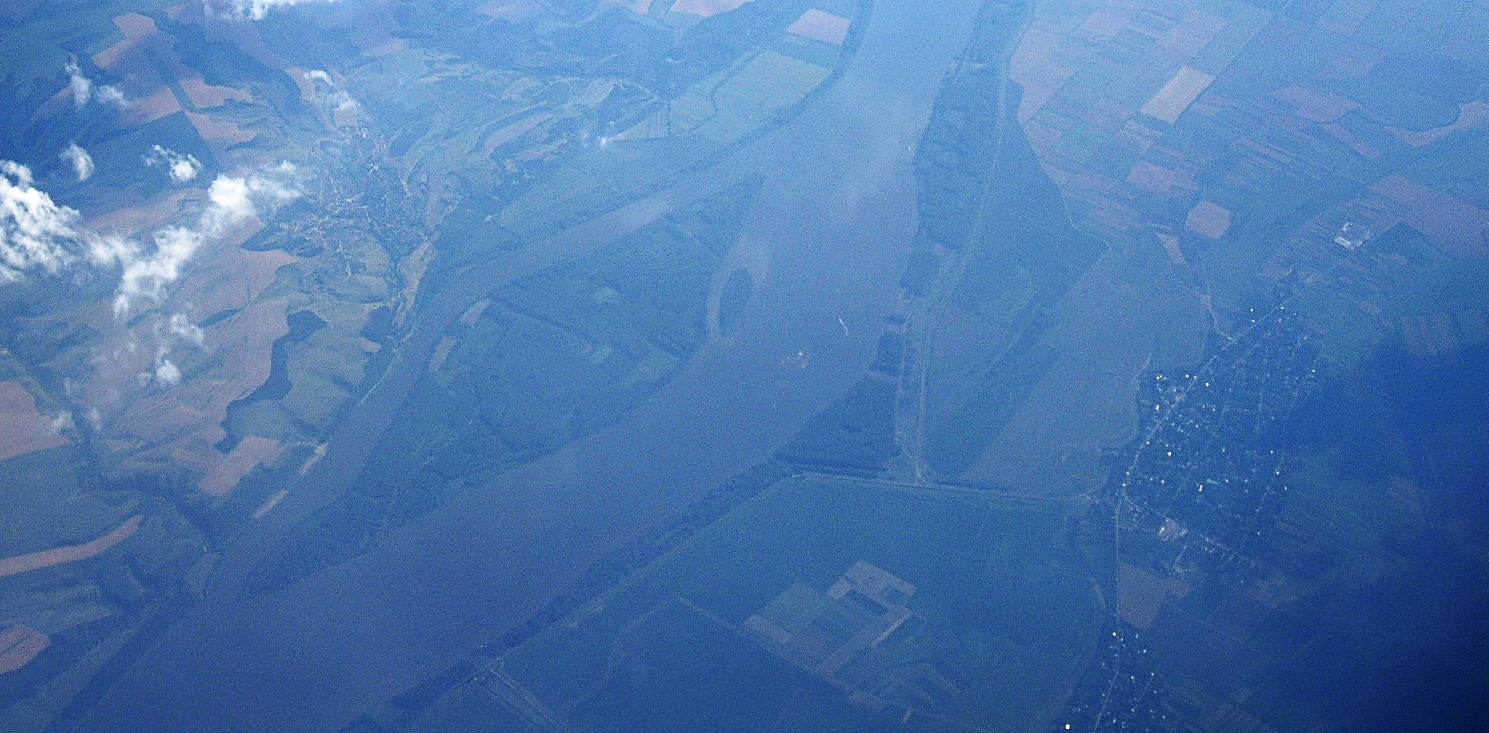 bulgarian-romanian border at the Danube: the Islands Batin and Doychov